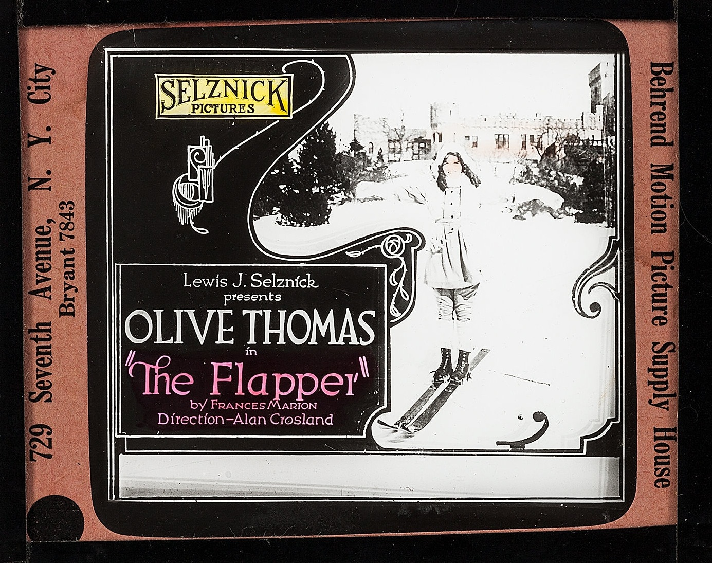 The Flapper is a 1920 American silent comedy film starring Olive Thomas. This is a contemporary glass slide for the film.